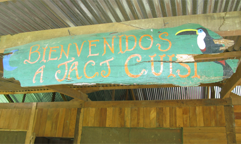 Welcome sign on volunteer housing at Parque Jacj Cuisi, Bolivia.